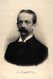 Carl Claus Heinrich Norstrand (1852-1912), Norwegian-Danish businessman and consul